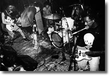 Scream playing live